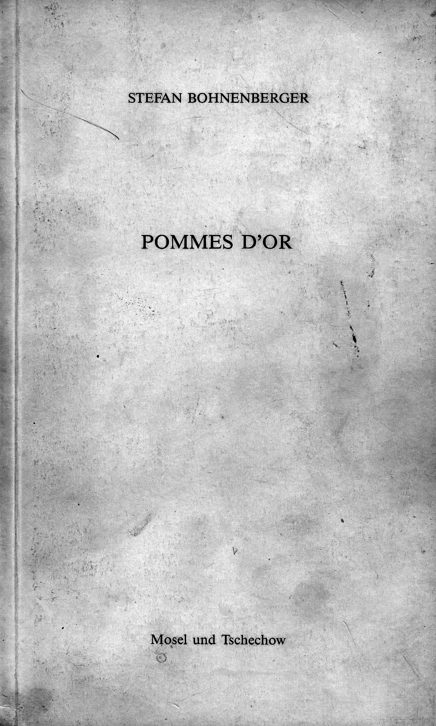 Catalogue" Pommes d'Or", Munich 1990